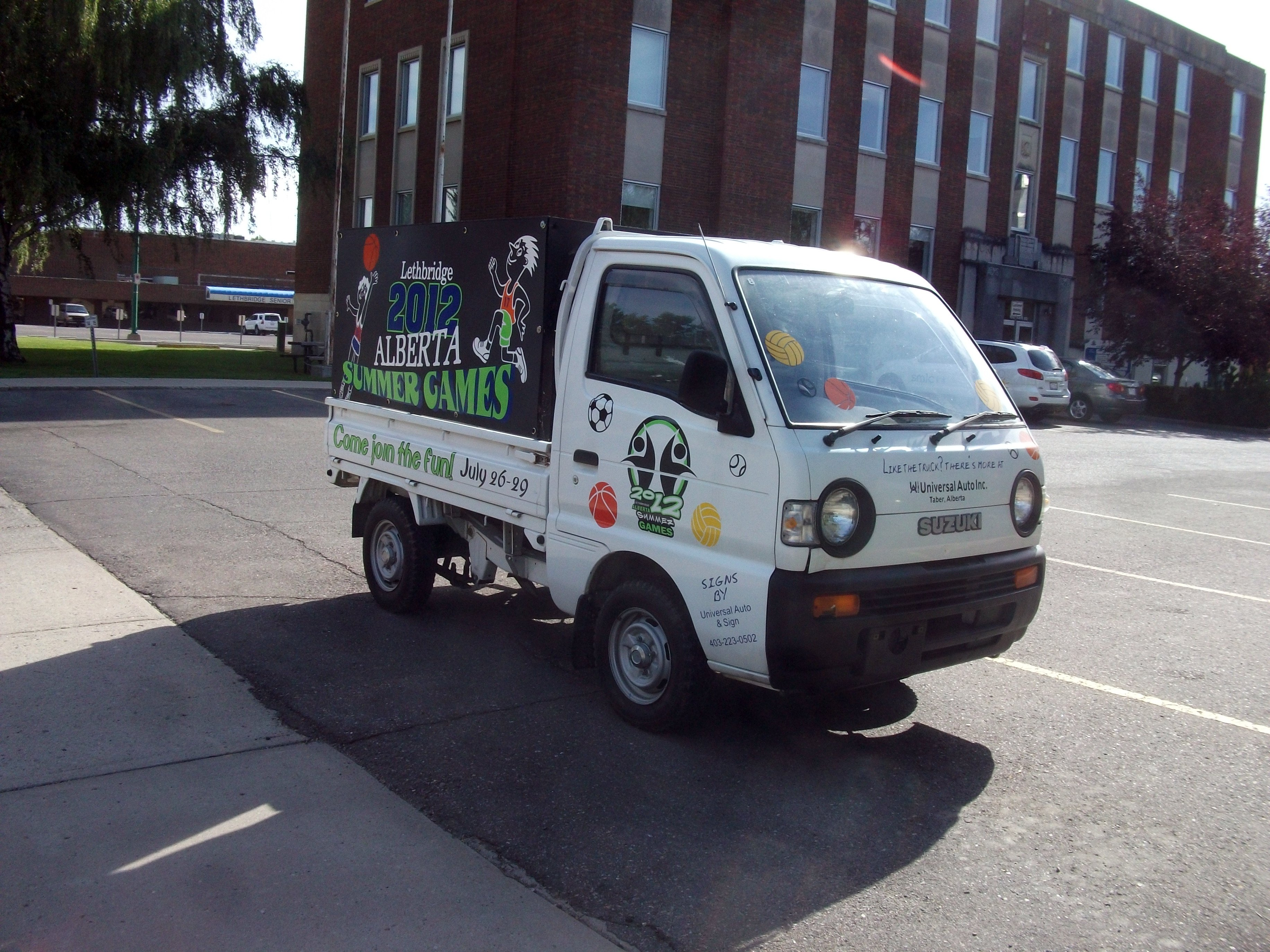 Suzuki Carry- a Kei class truck imported from Japan